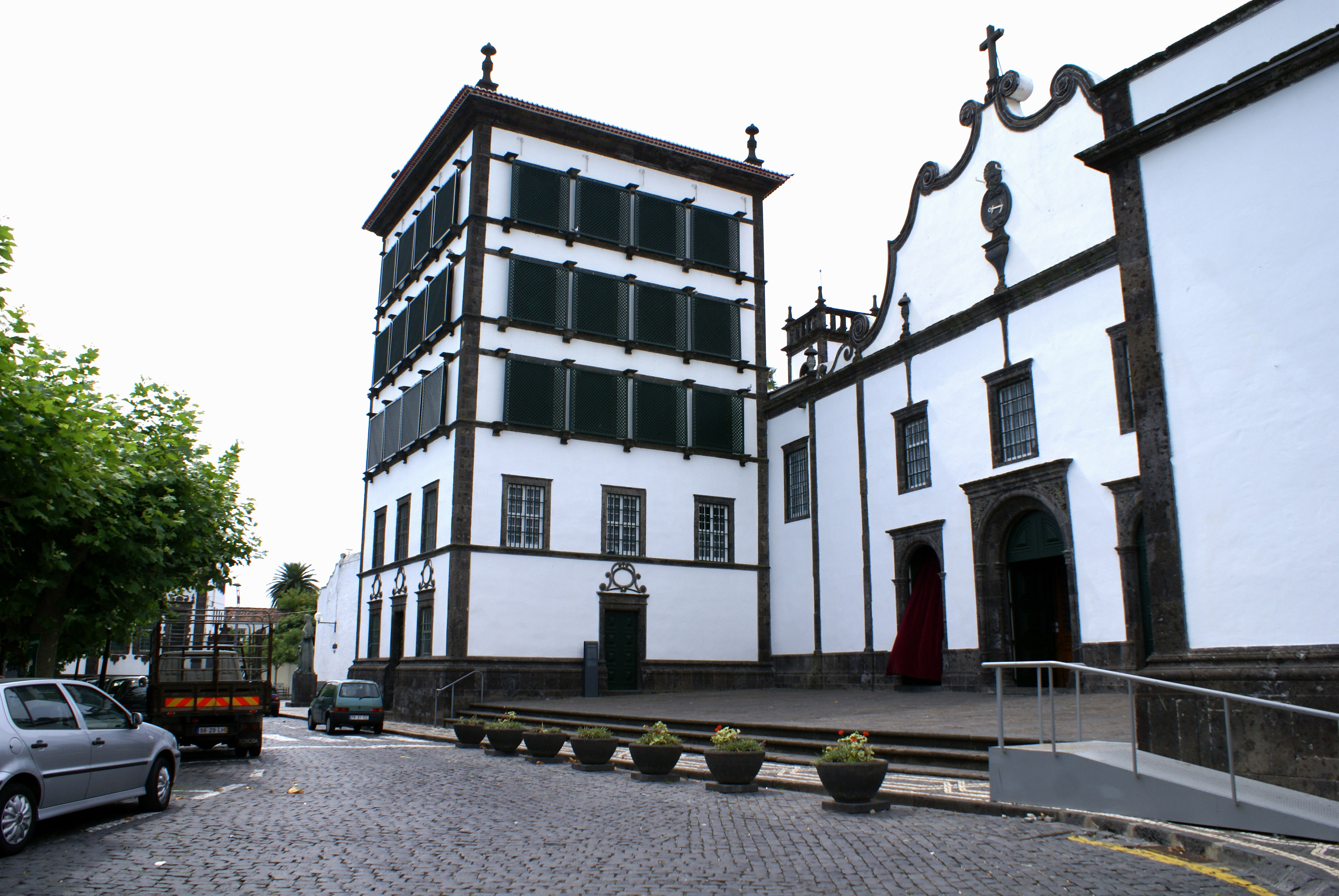 The Convent of Esperança and Church of Santo Cristo dos Milagres, São José, São Miguel (Azores), Portugal